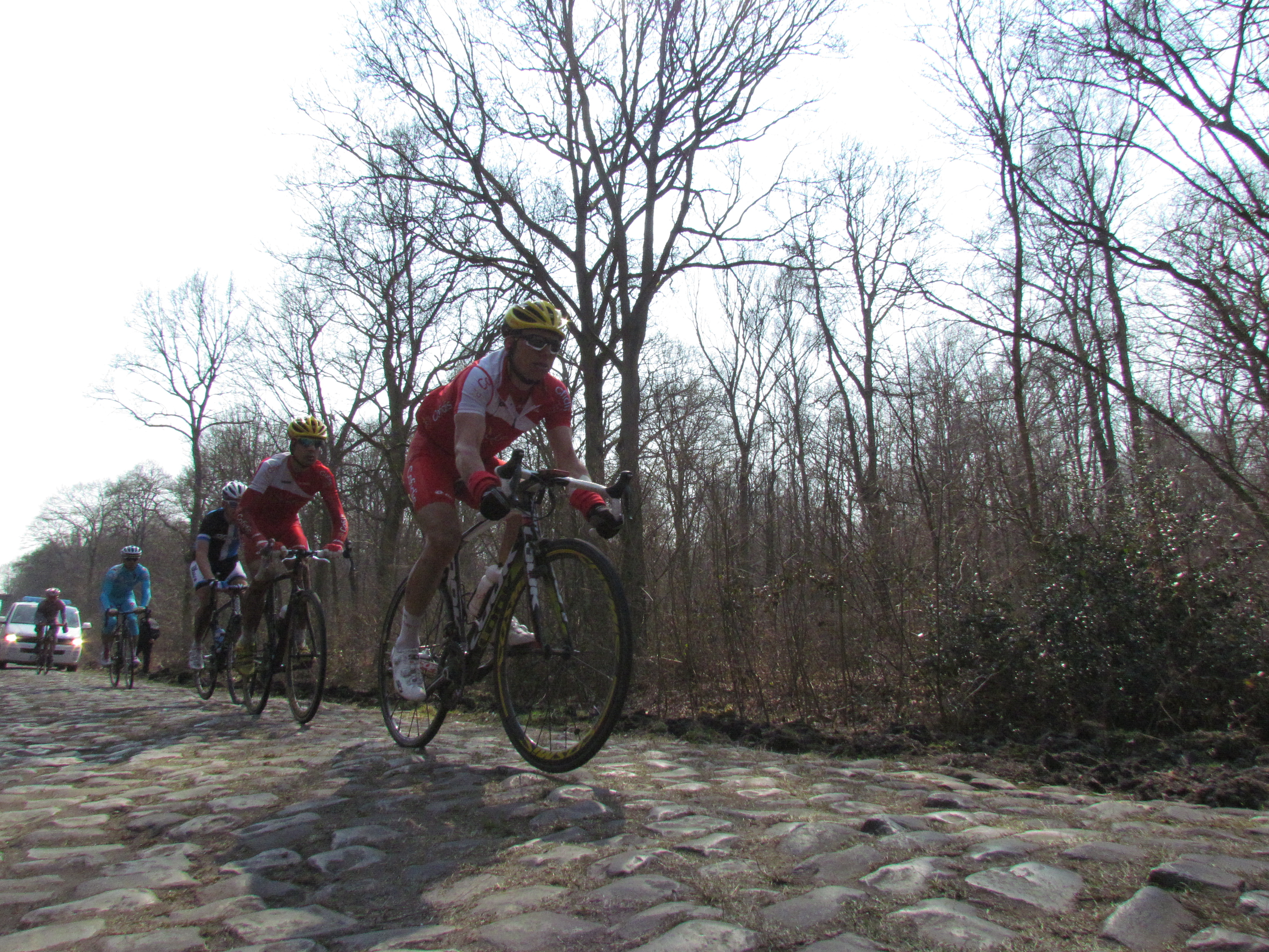 Rear of the peloton during the 2013 Paris - Roubaix